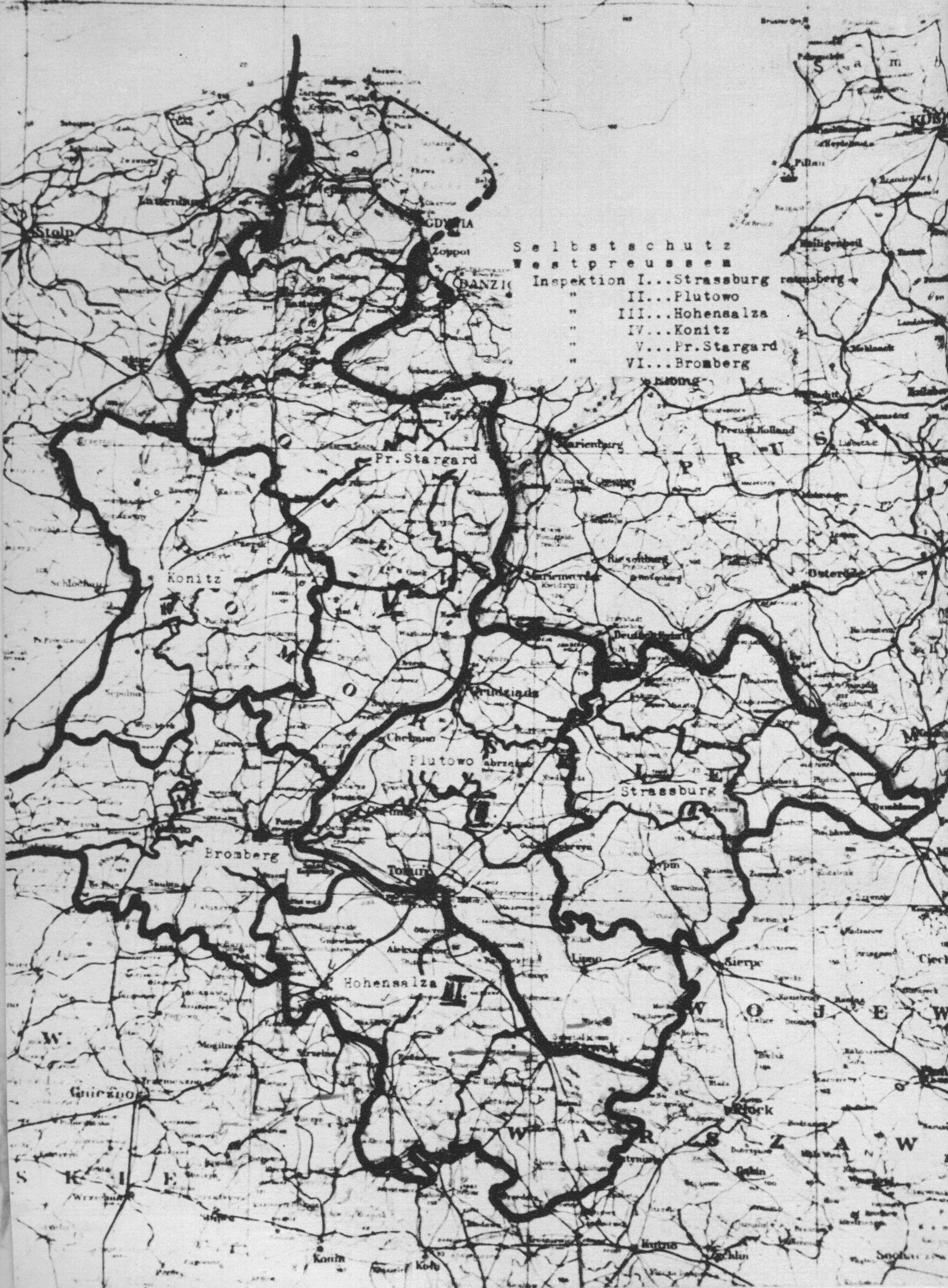 German map of Polish Pomerania from autumn 1939 with territorial organization of so-called Volksdeutscher Selbstschutz